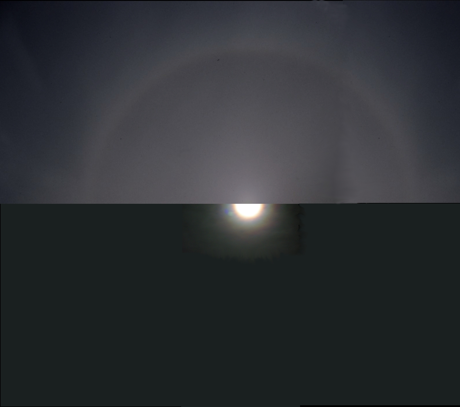 Comparison of corona and halo